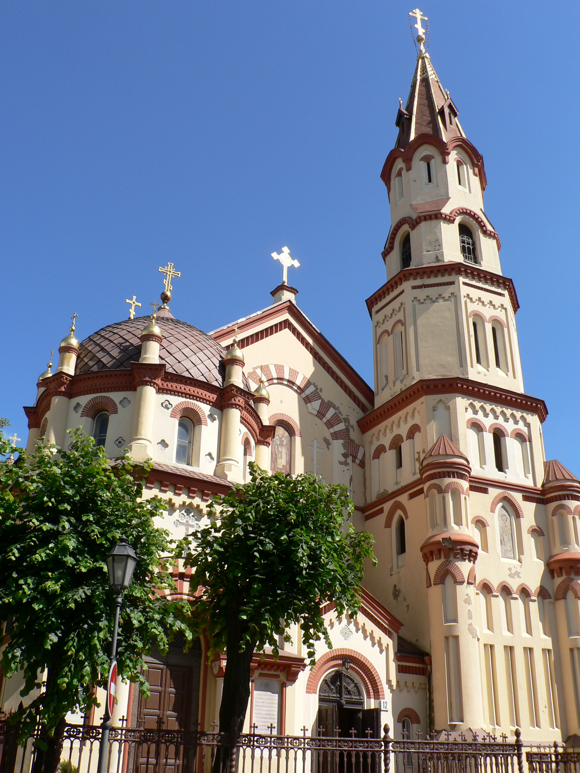 St. Nicholas Orthodox Church in Vilnius, Lithuania.